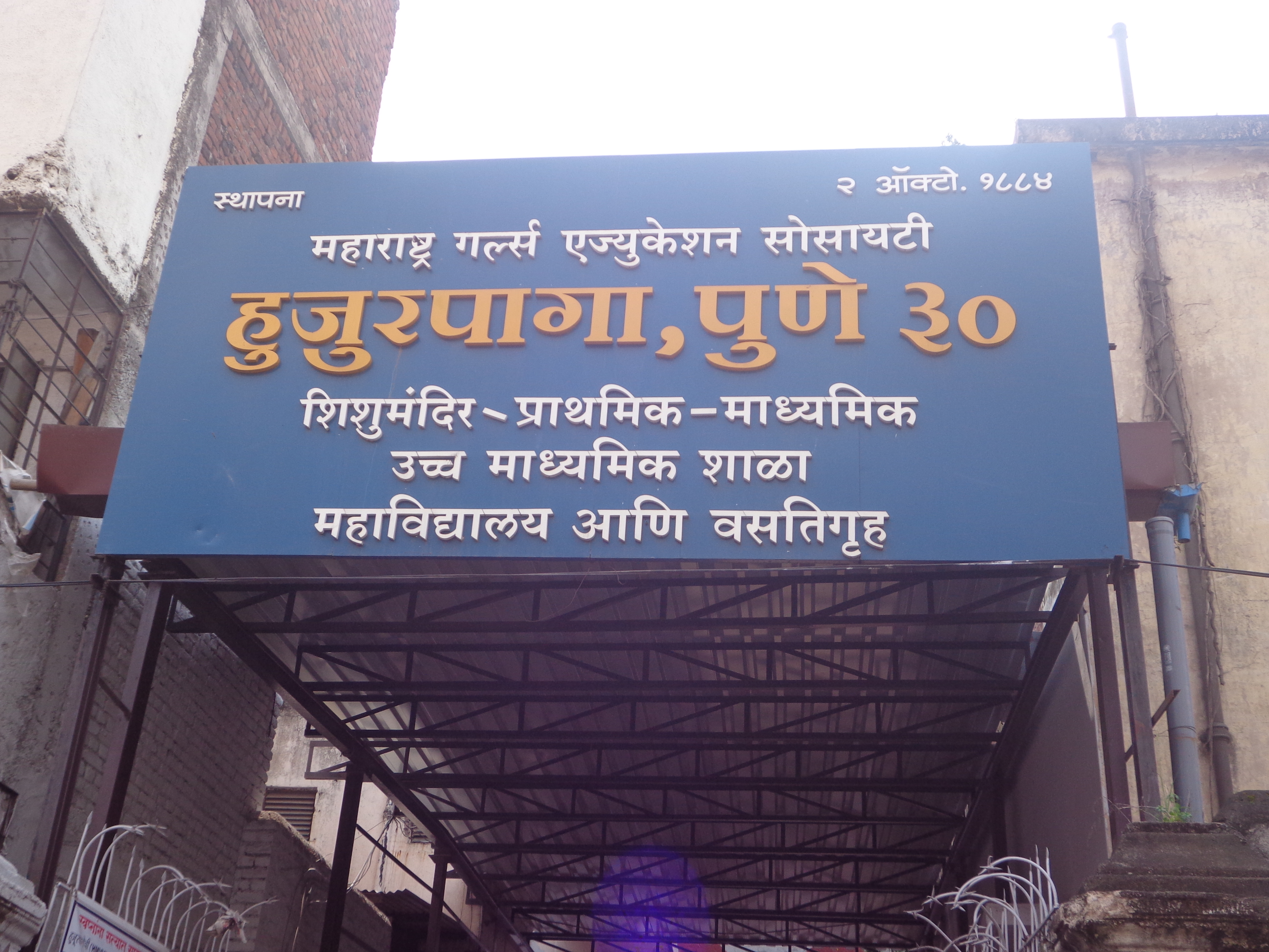 Huzurpaga Girls High School in pune,india